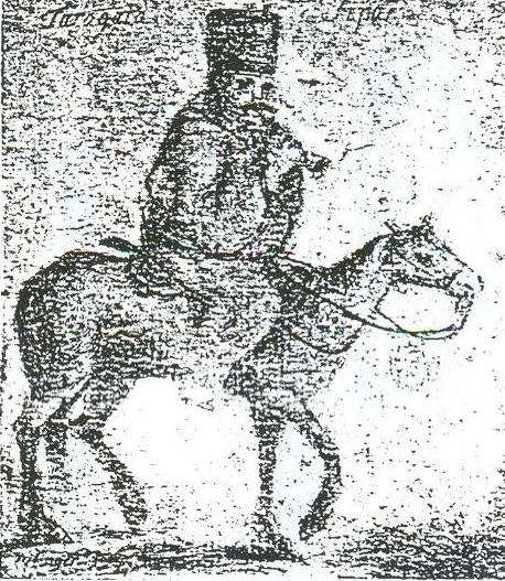 Soldier playing tárogató on horseback (ancient double-reeded tárogató)